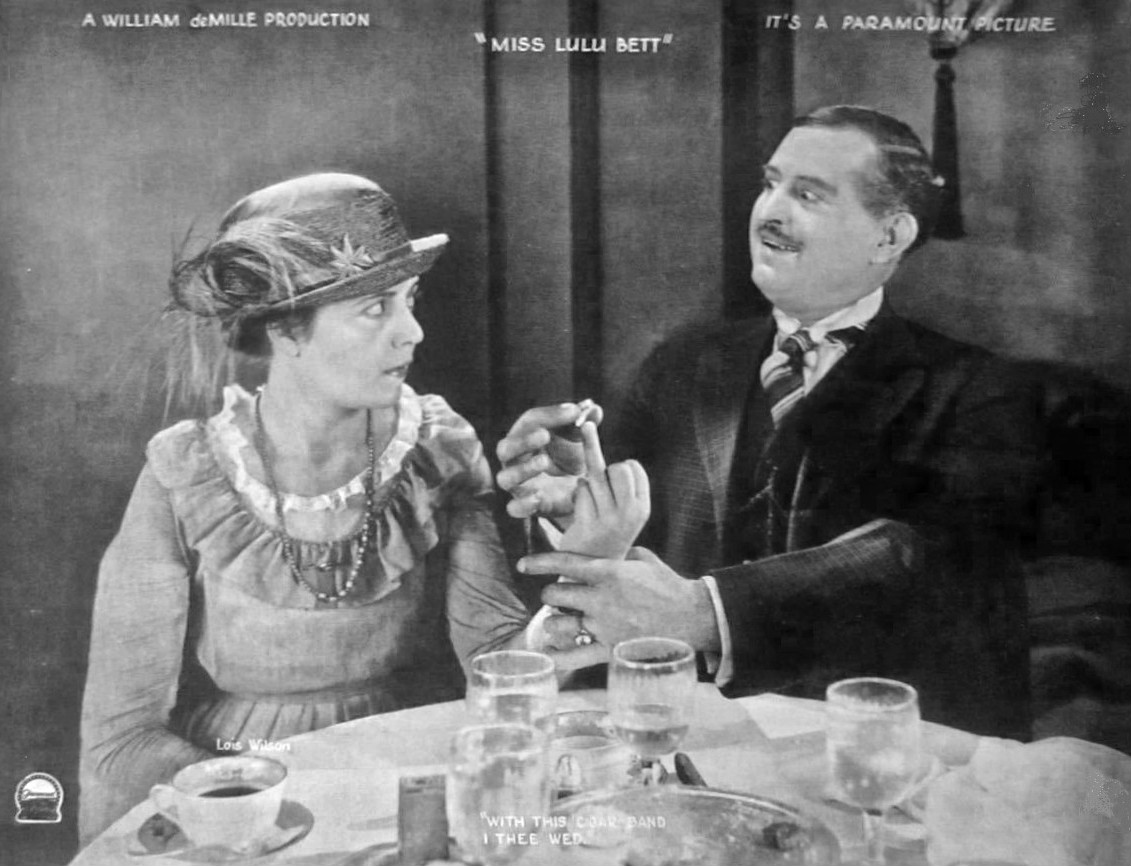 Lobby card for the 1921 film Miss Lulu Bett.